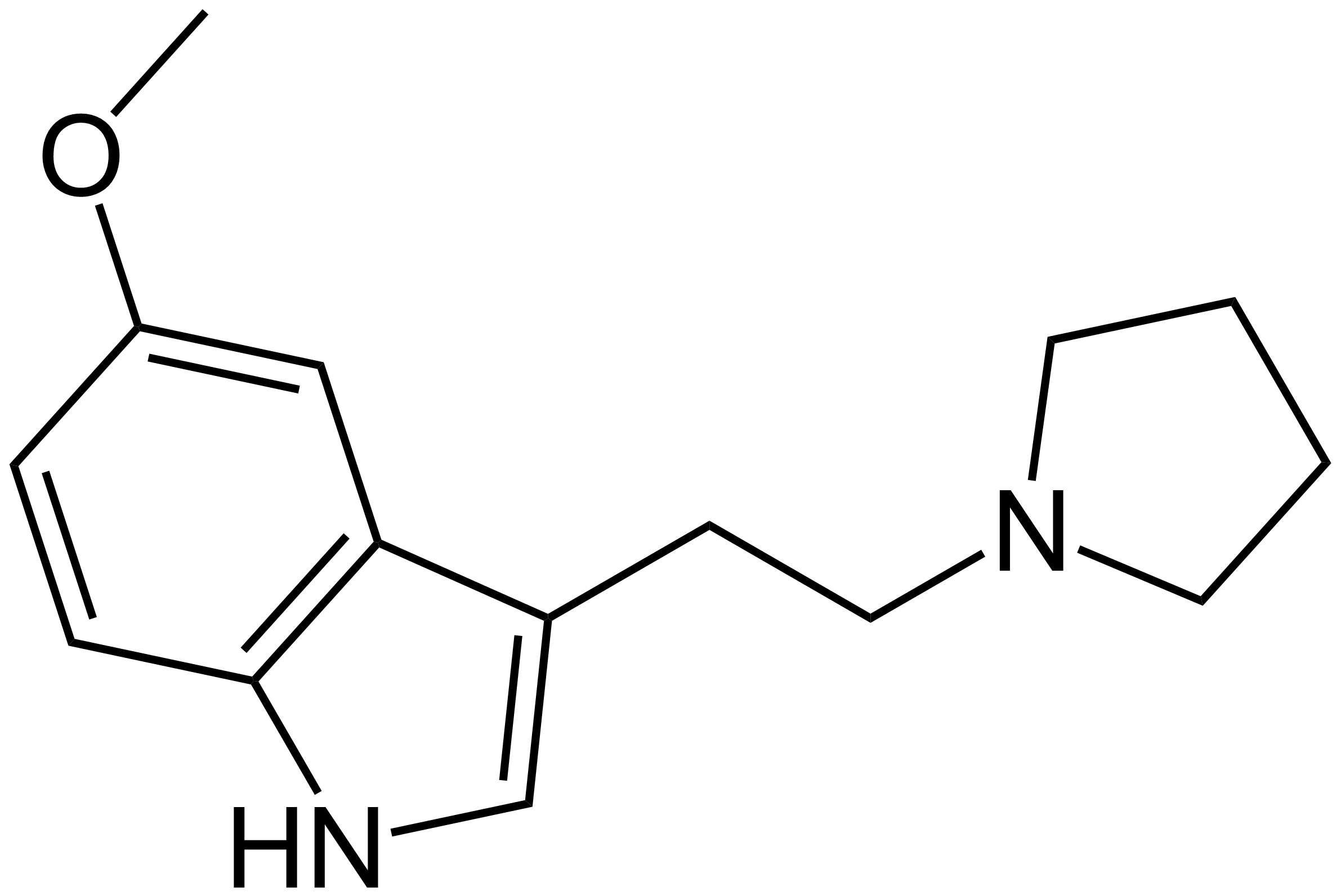 Structure of 5-MeO-pyr-T